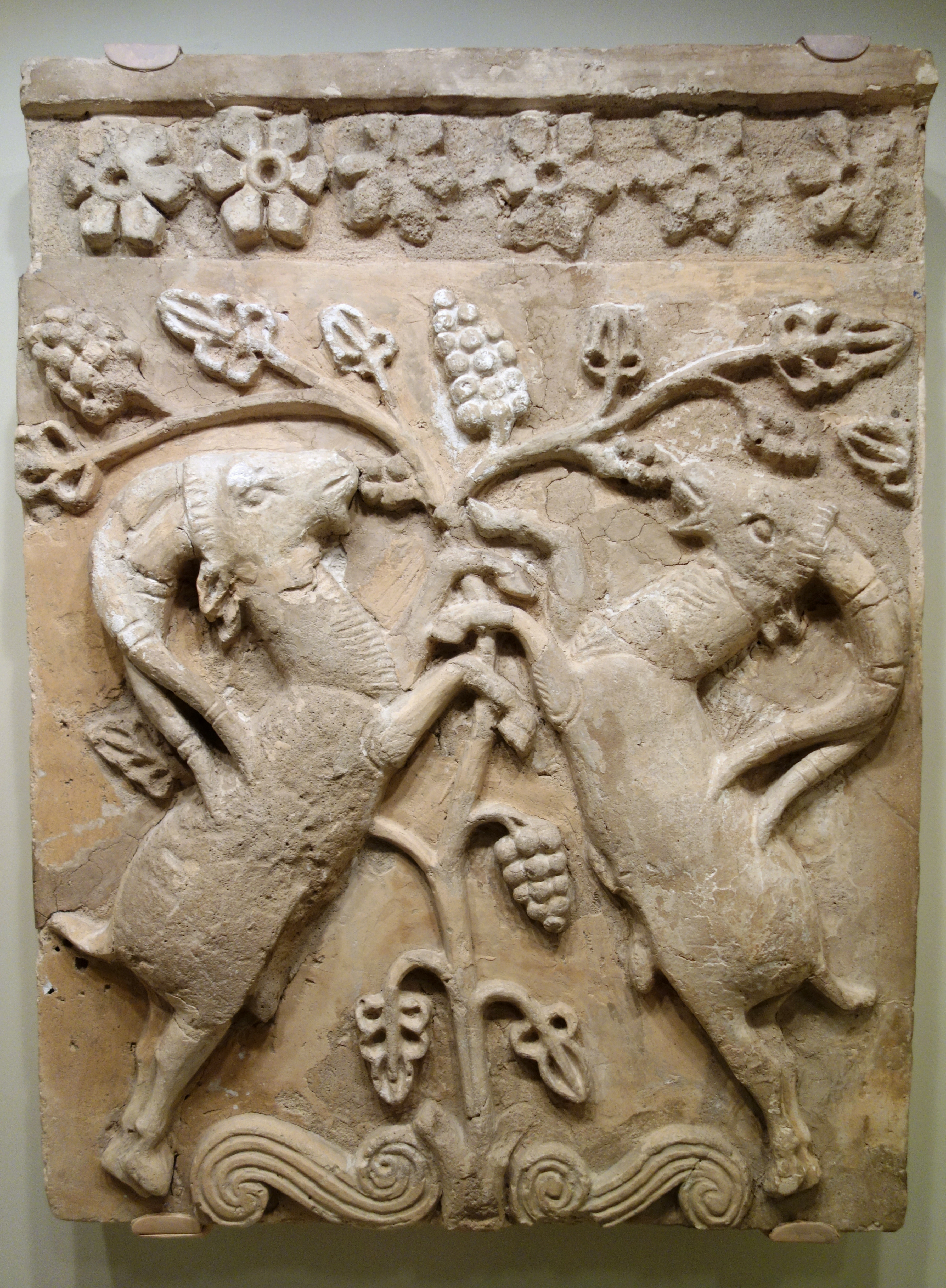 Exhibit in the Cincinnati Art Museum, Cincinnati, Ohio, USA. This artwork is in the public domain because the artist died more than 70 years ago.